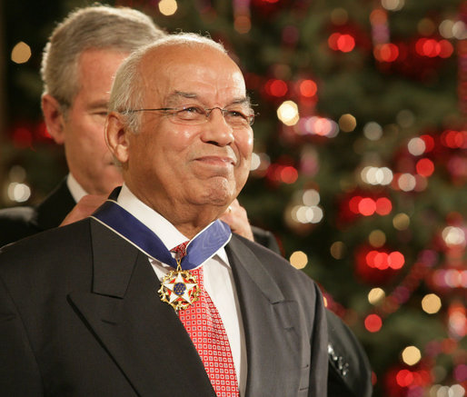 Dr. Norman Francis is honored by President George W. Bush with the Presidential Medal of Freedom Friday, Dec. 15, 2006, in the East Room of the White House. President Bush told the audience, "Dr. Francis is known across Louisiana, and throughout our country, as a man of deep intellect and compassion and character... All of us admire the good life and remarkable career of Dr. Norman C. Francis."